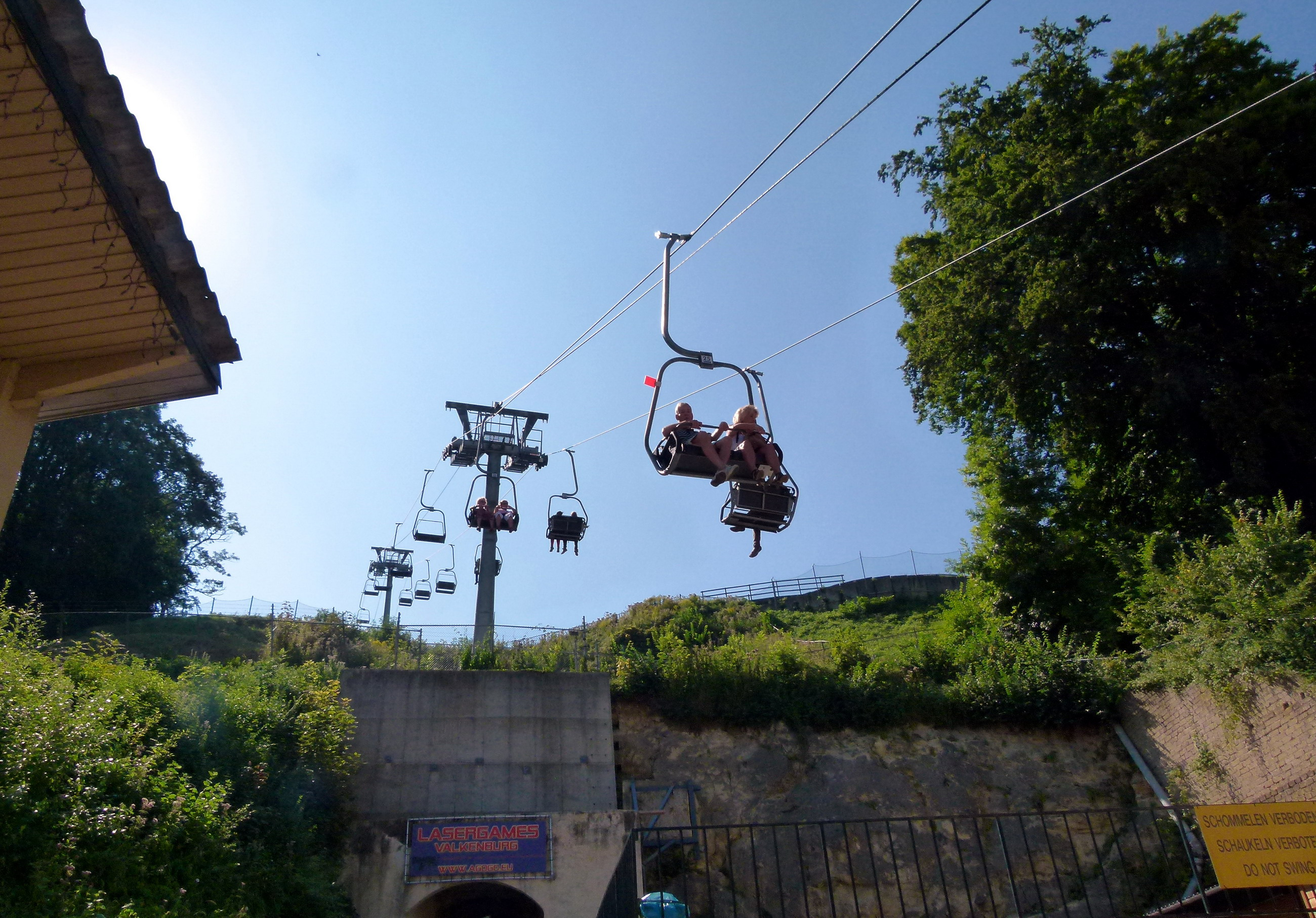 Valkenburg, Limburg, the Netherlands. Aerial tramway moving passengers from Neerhem in the center of Valkenburg to Wilhelminatoren.